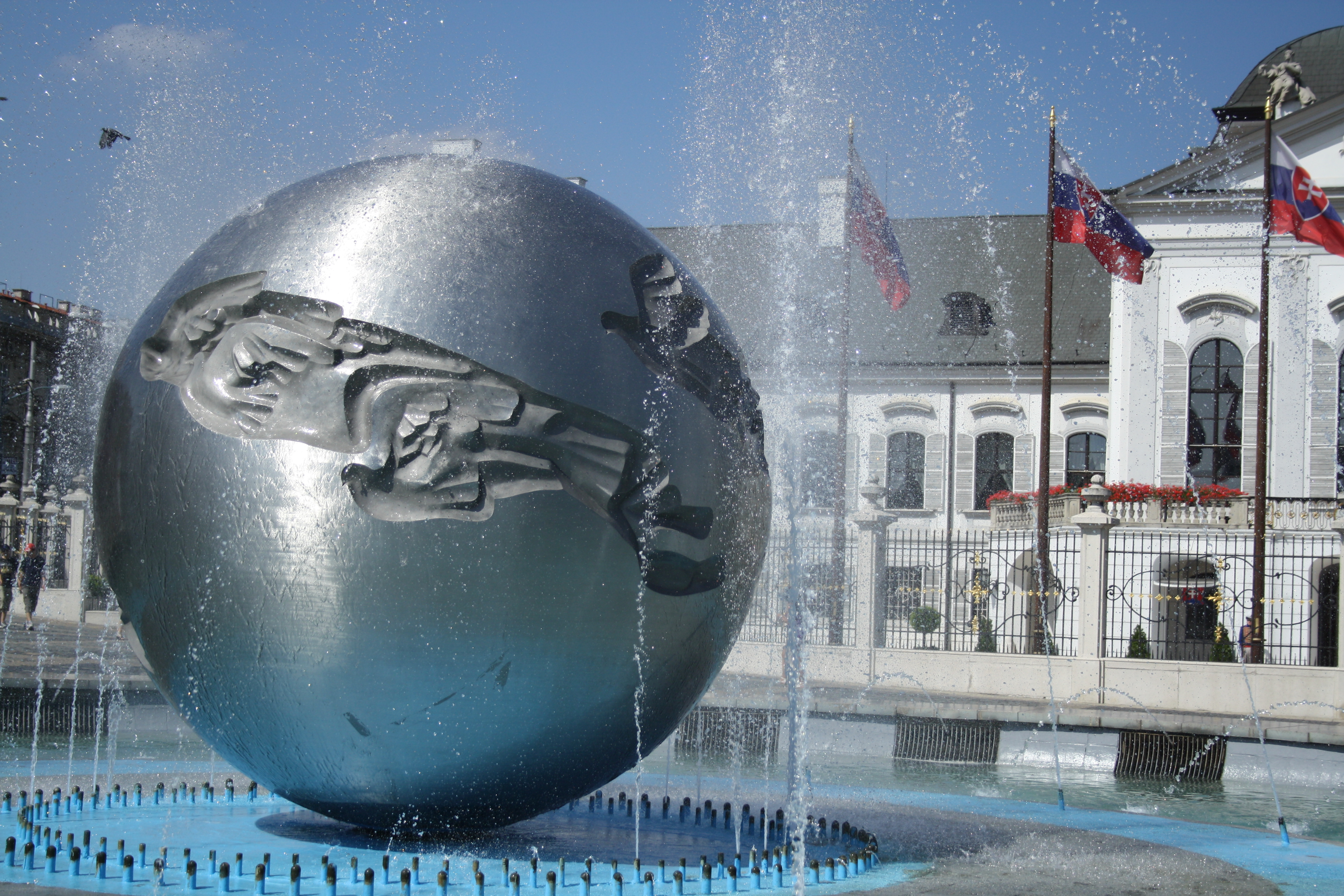 Detail of sculpture of Fountain of peace in Bratislava.